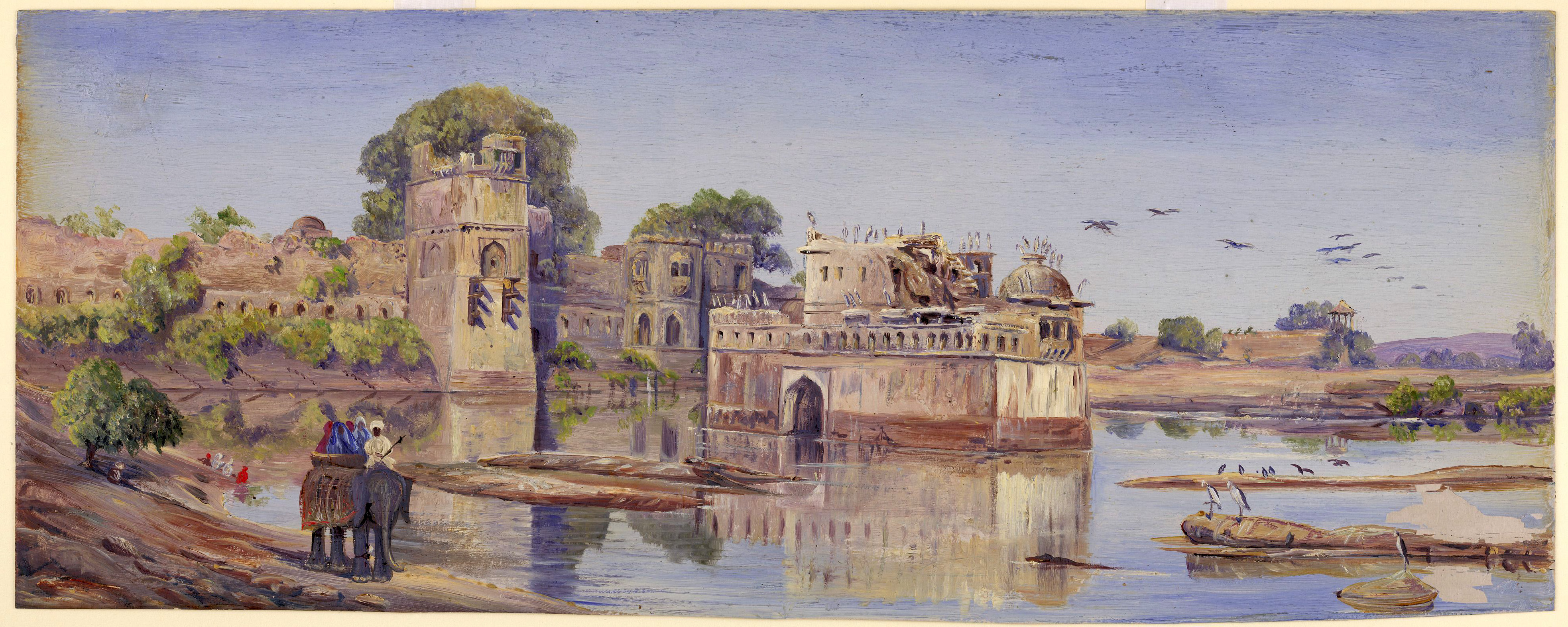 Oil painting of Padmini's palace in the Chittorgarh Fort in the midst of the tank. Oil painting of Padmini's Palace in Chittaurgarh, Rajasthan by Marianne North, dated December 1878.